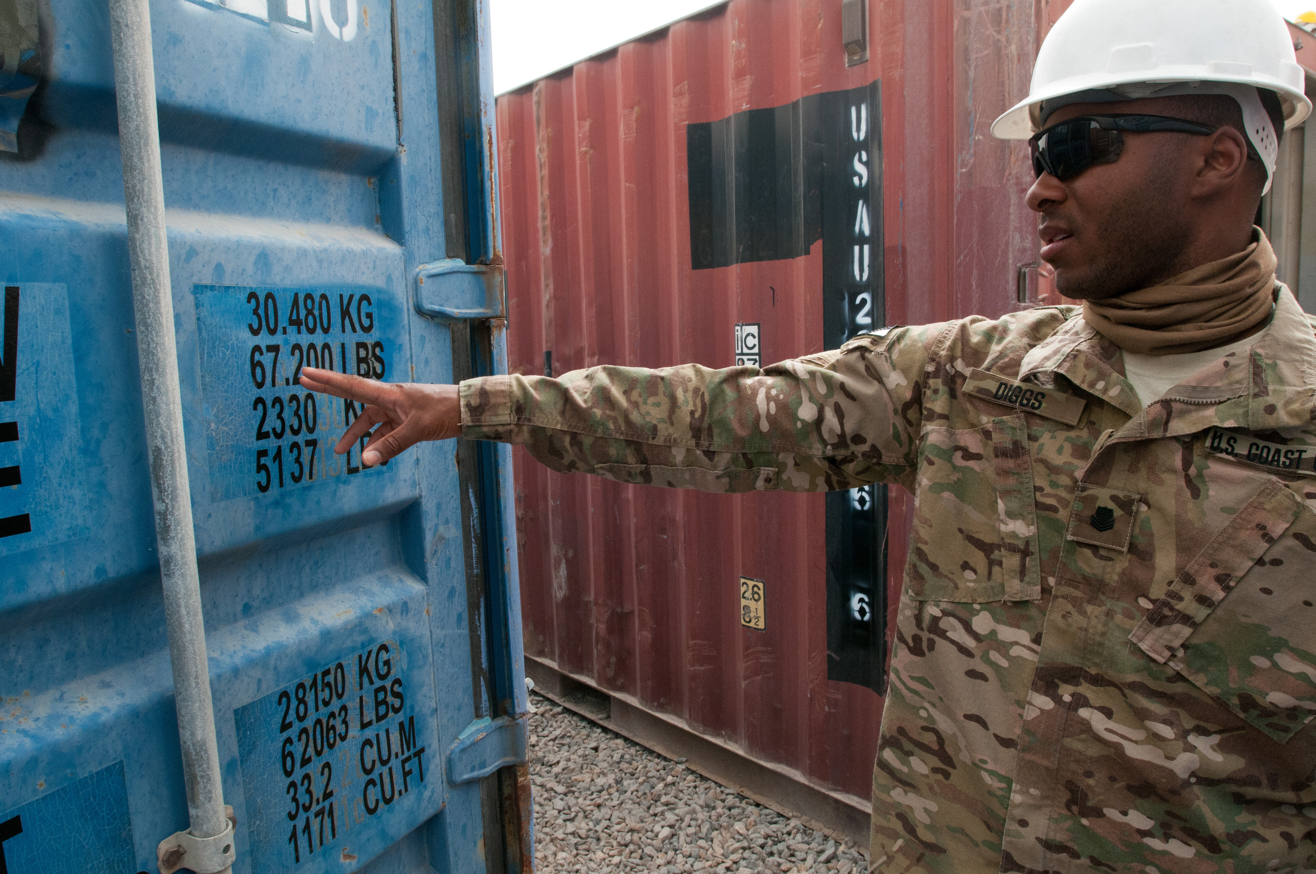 Coast Guard Petty Officer 1st Class Adron Diggs, a native of Chattanooga, Tenn., who serves with the Redeployment Assistance Inspection Detachment team, points out the differences between usable markings and markings which must be remade as he inspects containers at Kandahar Air Field, Afghanistan, July 3. The pictured markings are stickers which are bonded to the door of the container. Diggs explained how even readable numbers, like the ones he’s pointing out, could come off in transit if the markings aren't completely bonded to the container. The duty of the RAID team is to ensure all containers leaving KAF are in good condition to transport mission-essential equipment back safely to the U.S. (U.S. Army photo By. Spc. Ariel J. Solomon)